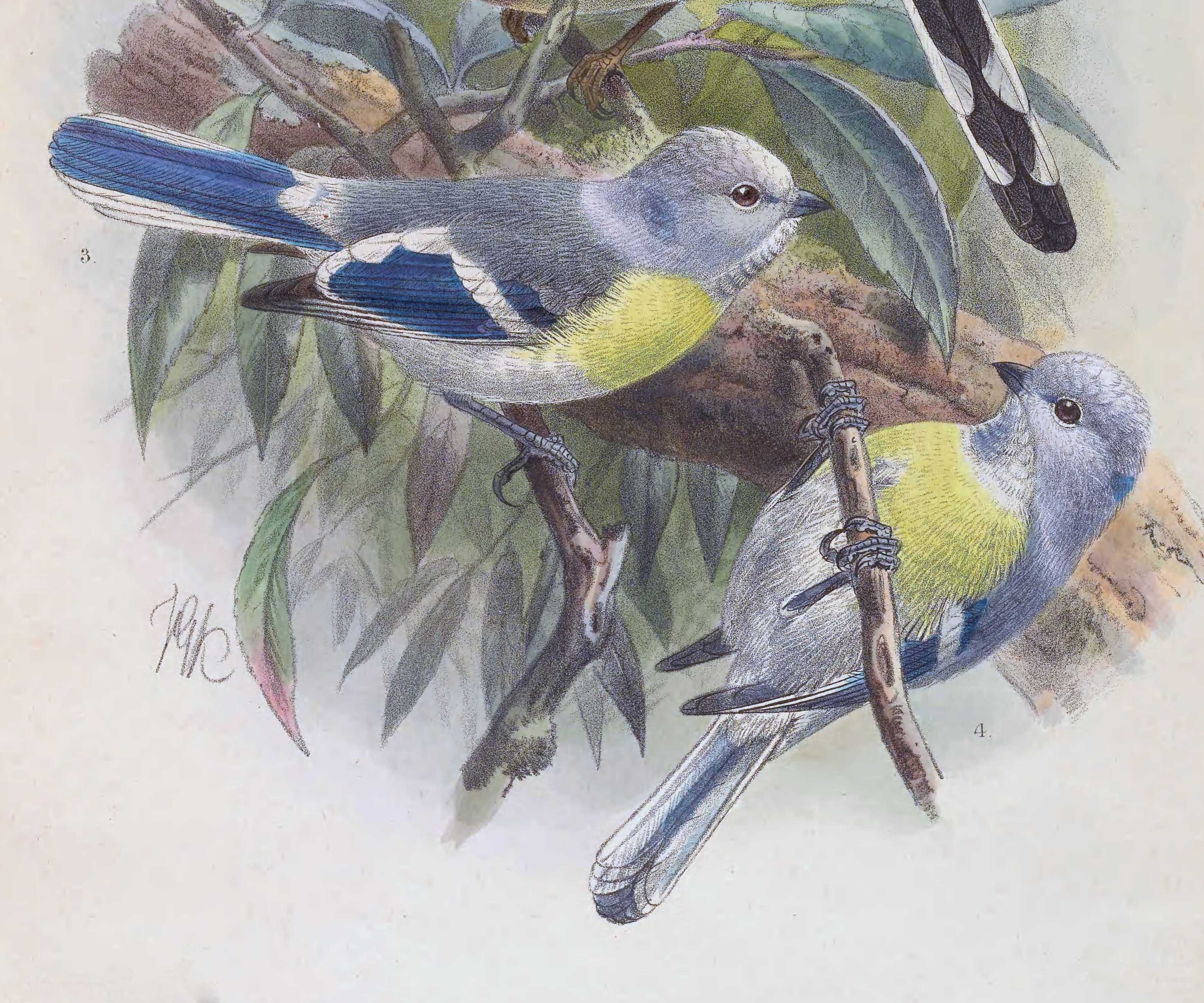 « Cyanistes berezowskii » = Cyanistes cyanus berezowskii (Subspecies of Azure tit) - males